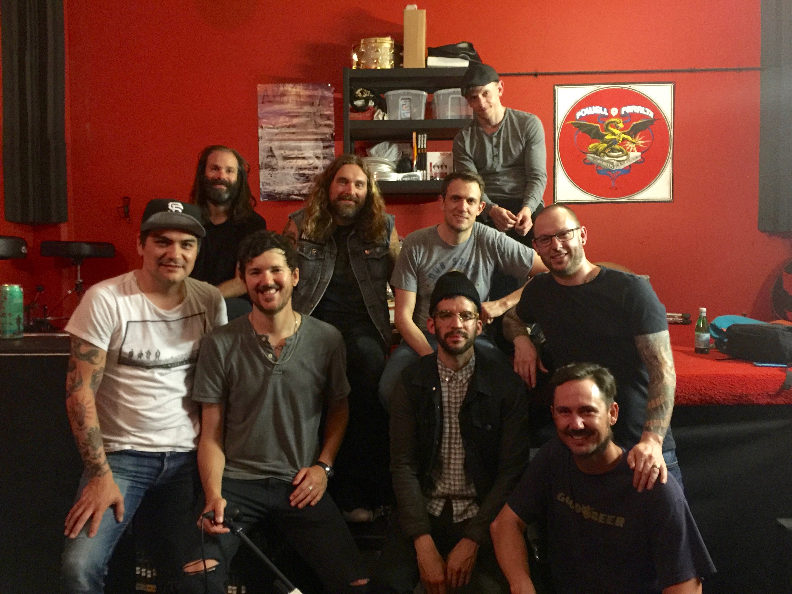 Link 80 reunion show.